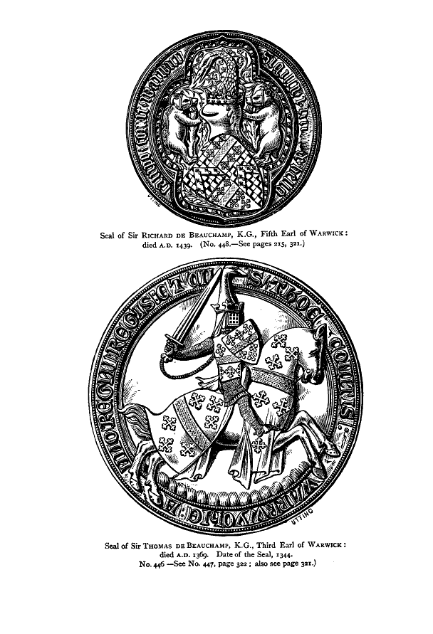 Seals of Sir Richard de Beauchamp and Sir Thomas de Beauchamp from "English Heraldry" (1867)